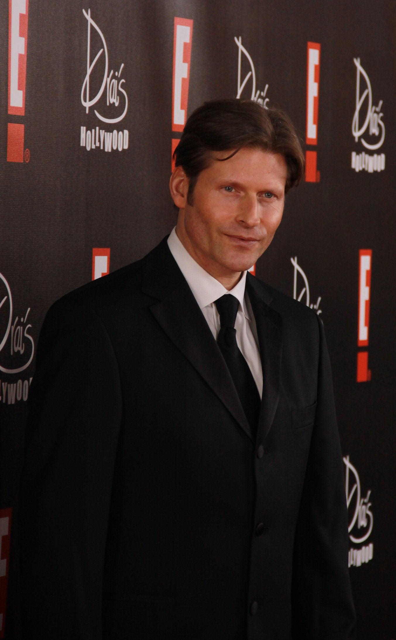 Photograph of Crispin Glover at the E! Post Oscars Party at club Drai's in the W Hotel, Hollywood, CA, March 7th, 2010